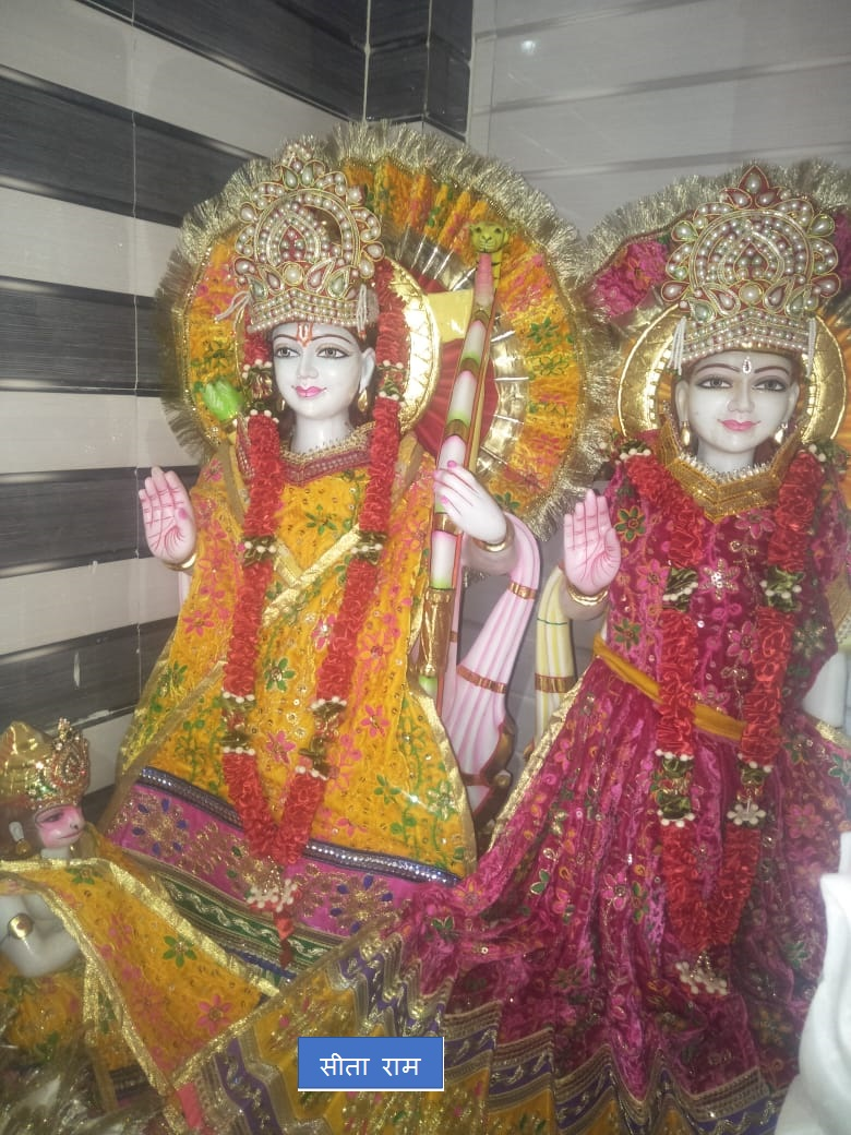 मुख्य दरबार